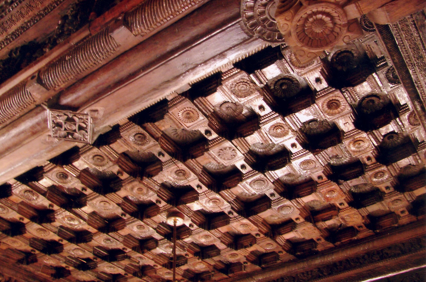 Photographed by self (Dinesh Kannambadi) in Keladi at the Rameshwara temple, Shivamogga district, Karnataka, India